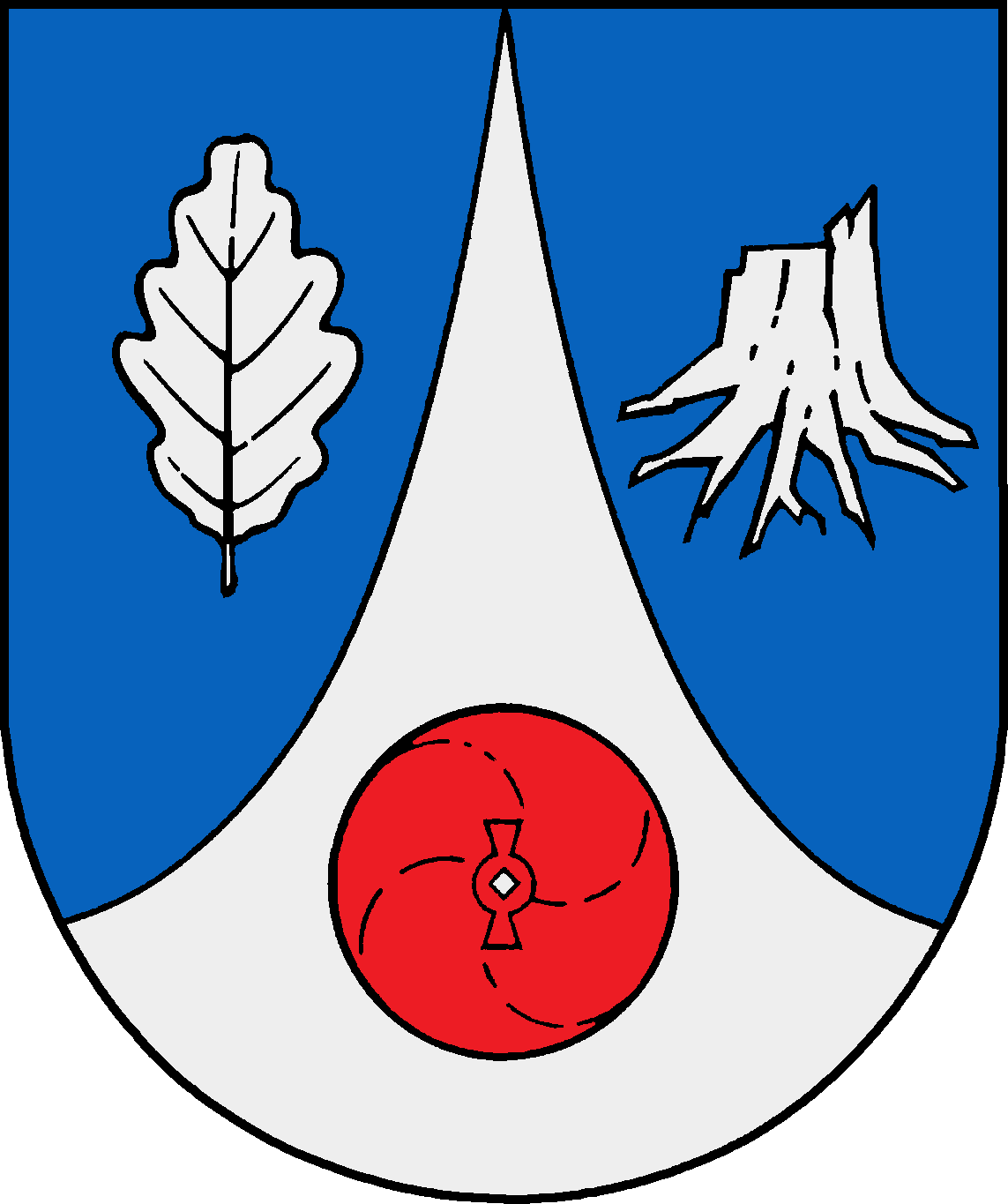 Coat of arms of the municipality Neuengörs in Schleswig-Holstein, Germany.